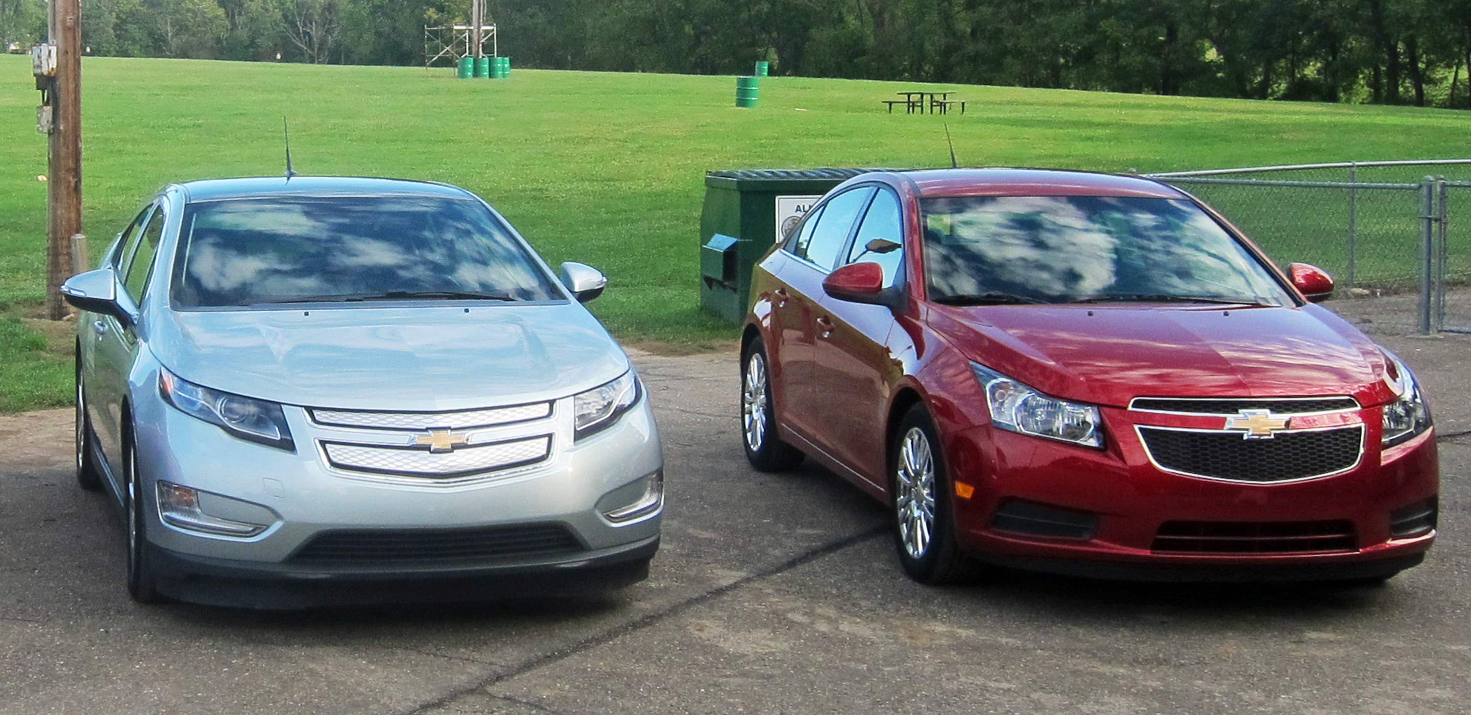 Chevrolet Volt (left) and Chevrolet Cruze Eco (right) at the Fight for Air Walk Ride and Drive